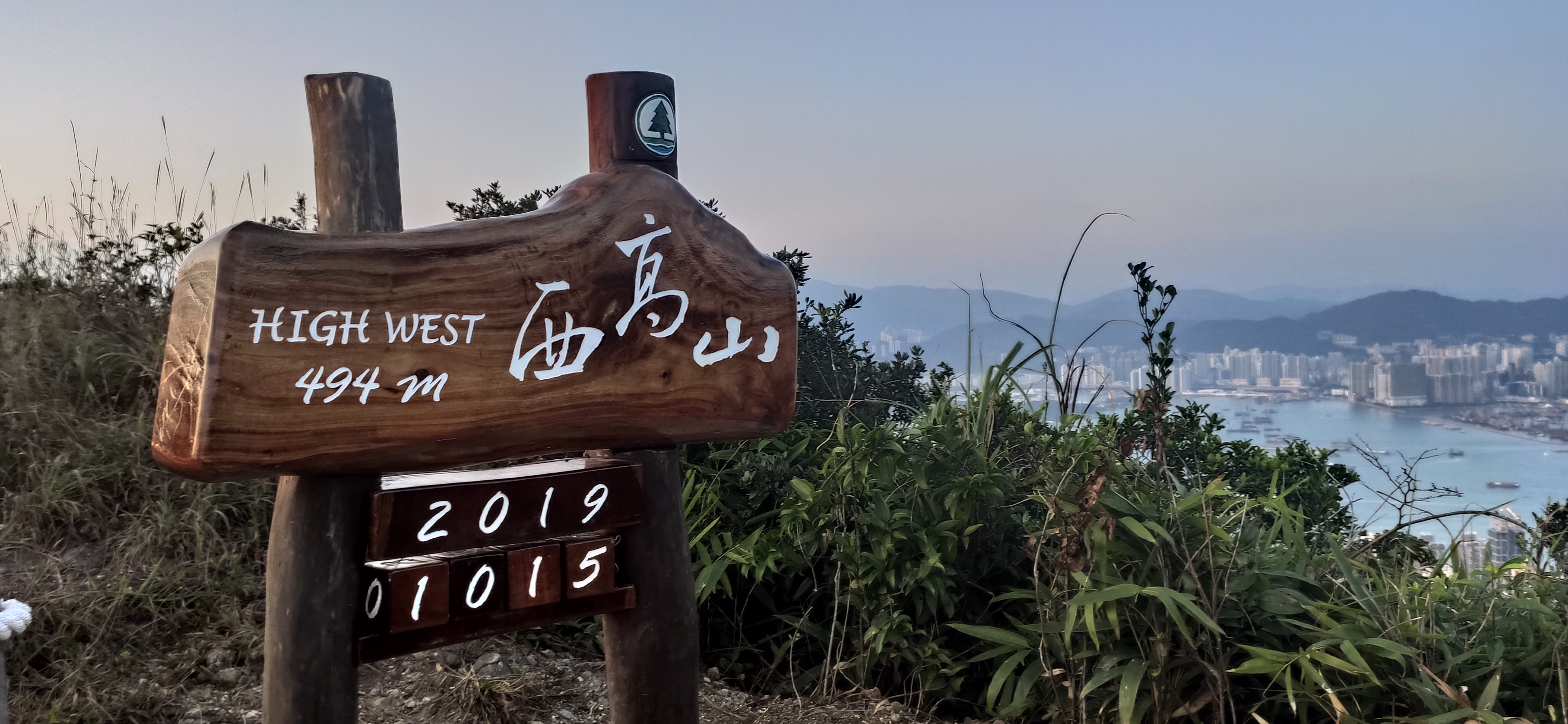 Summit of High West